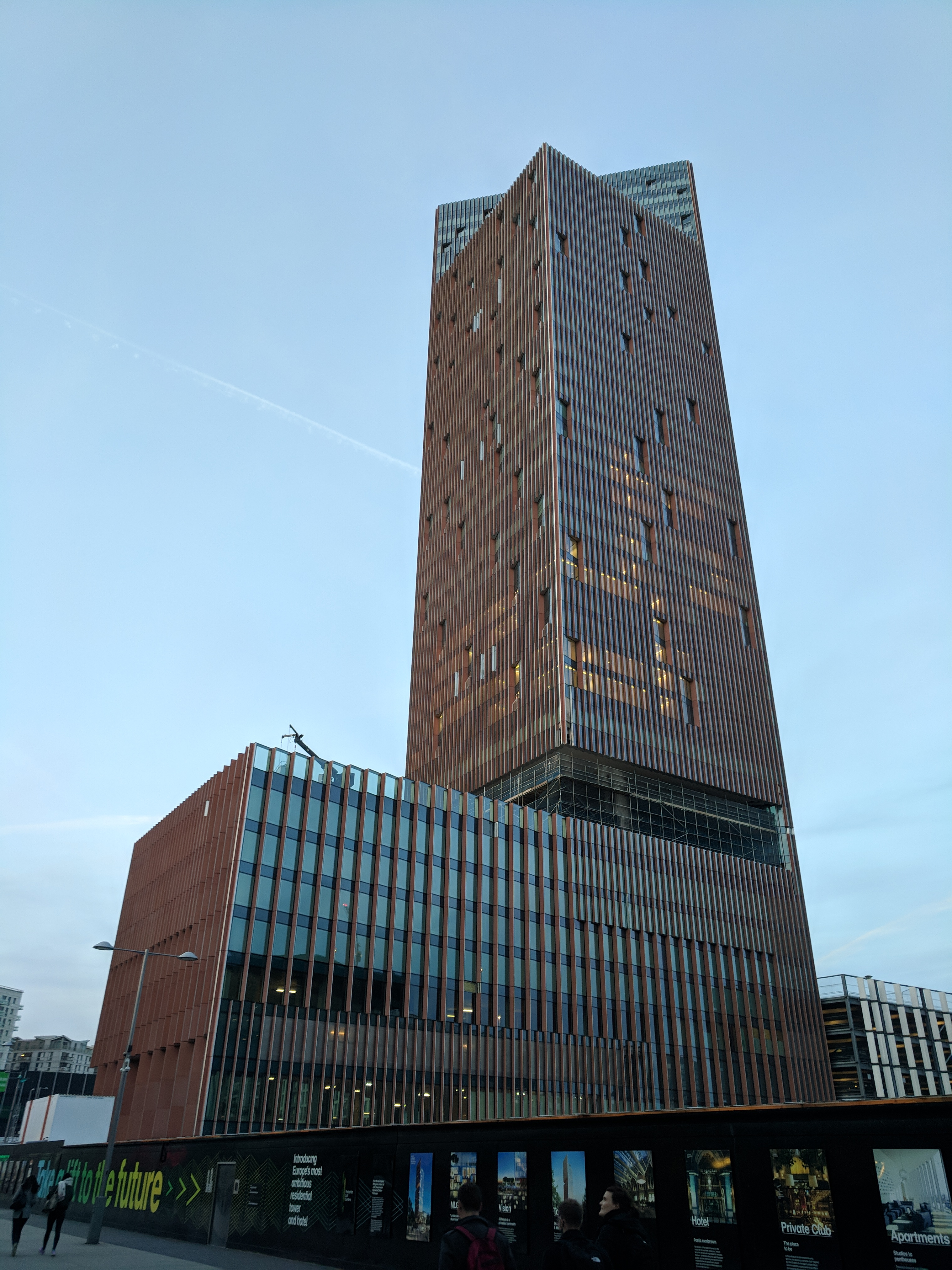 Another new apartment building in Stratford, London